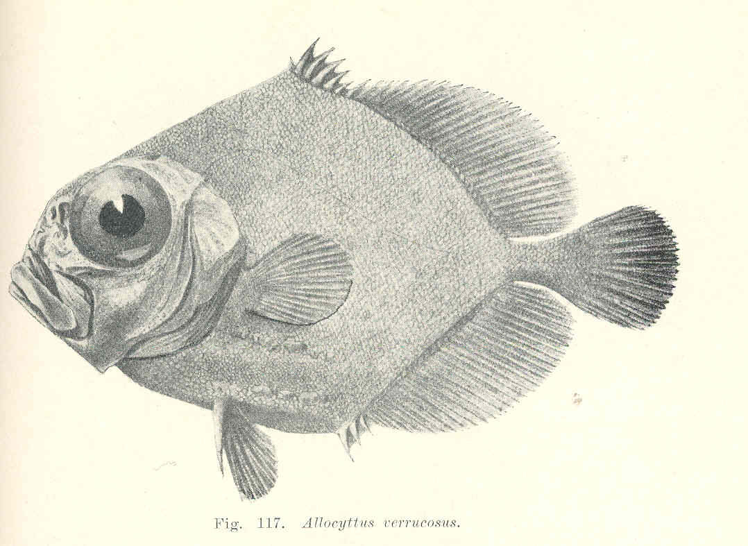 Allocyttus verrucosus Subject: Zeidae, Allocyttus Tag: Fish